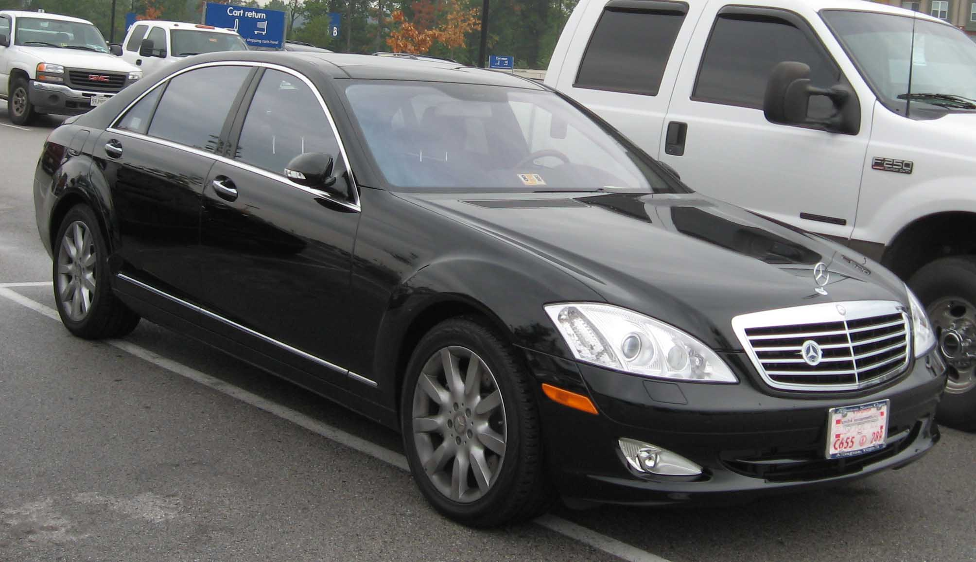 2007 Mercedes-Benz S550 photographed in College Park, Maryland, USA.